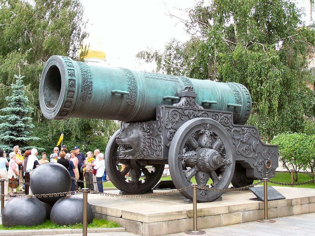 A view of the Tsar Pushka, showing its massive bore and cannonballs, and the Lion's head cast into the carriage.